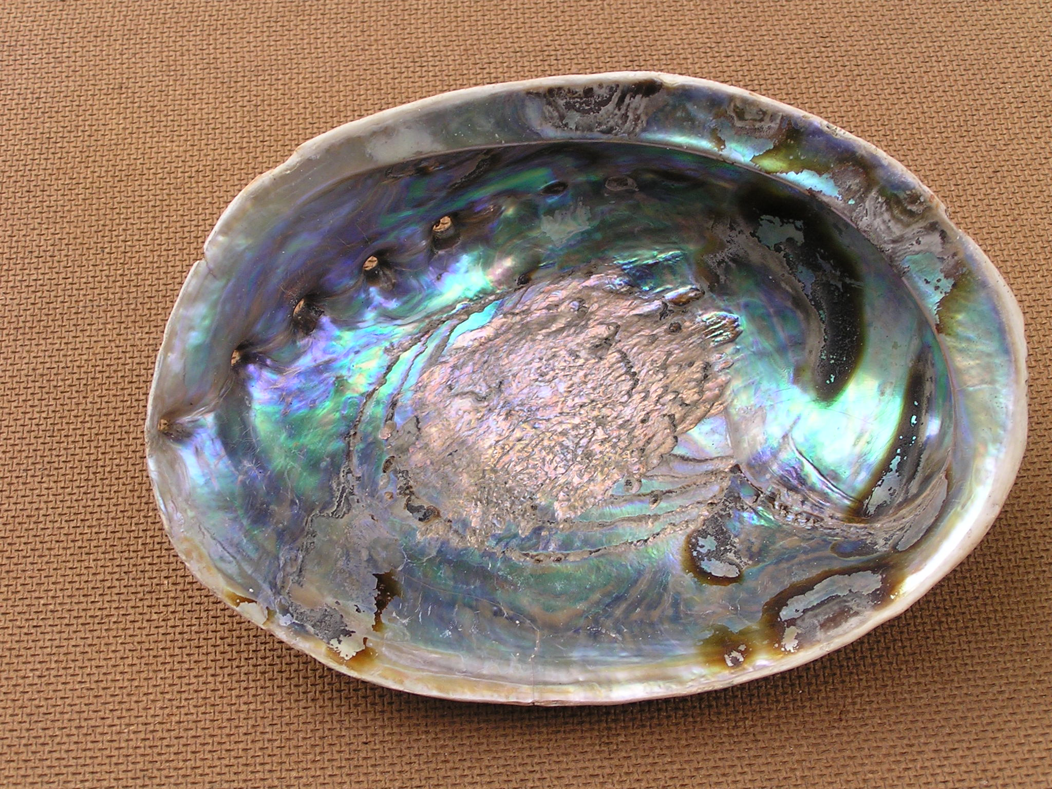 Photo of the shell of Haliotis iris. Locality: New Zealand, Own Collection. Goosebay, Kaikoura, New Zealand. 3 fathoms deep on rocks.